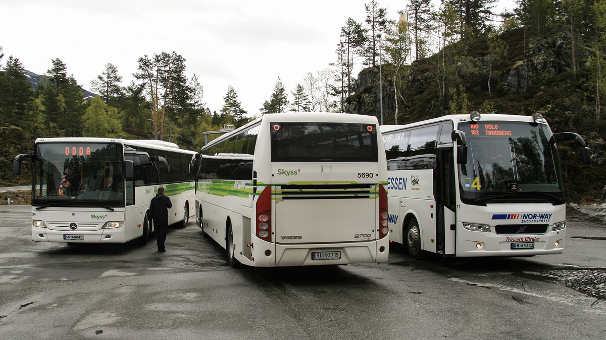 Passenger exchange at Seljestad vektstasjon.